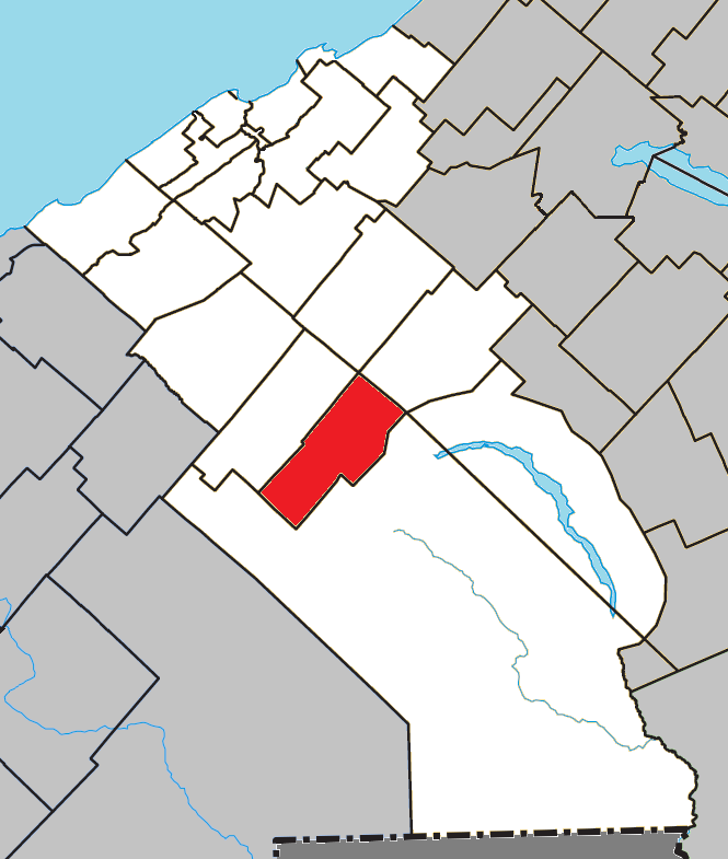 Location of Saint-Charles-Garnier, Quebec within La Mitis Regional County Municipality.